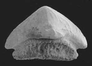 Cropped image of taxon in file name